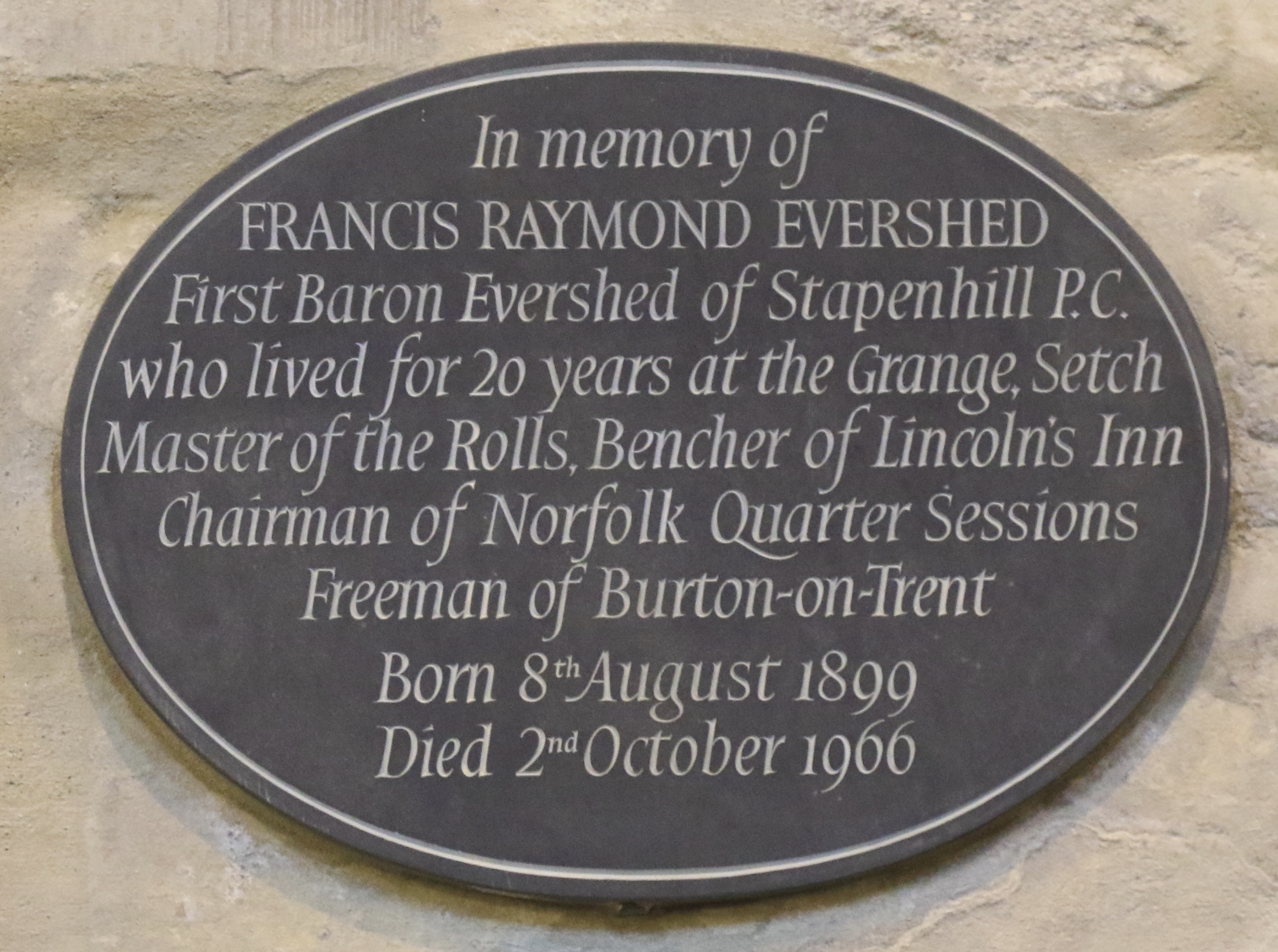 Francis Raymond Evershed, first Baron Evershed of Stapenhill P.C, who lived for 20 years at the Grange, Setch. Master of the Rolls, Bencher of Lincoln's Inn, Chairman of Norfolk Quarter Sessions, Freeman of Burton-on-Trent Born 8th August 1899 Died 2 October 1966